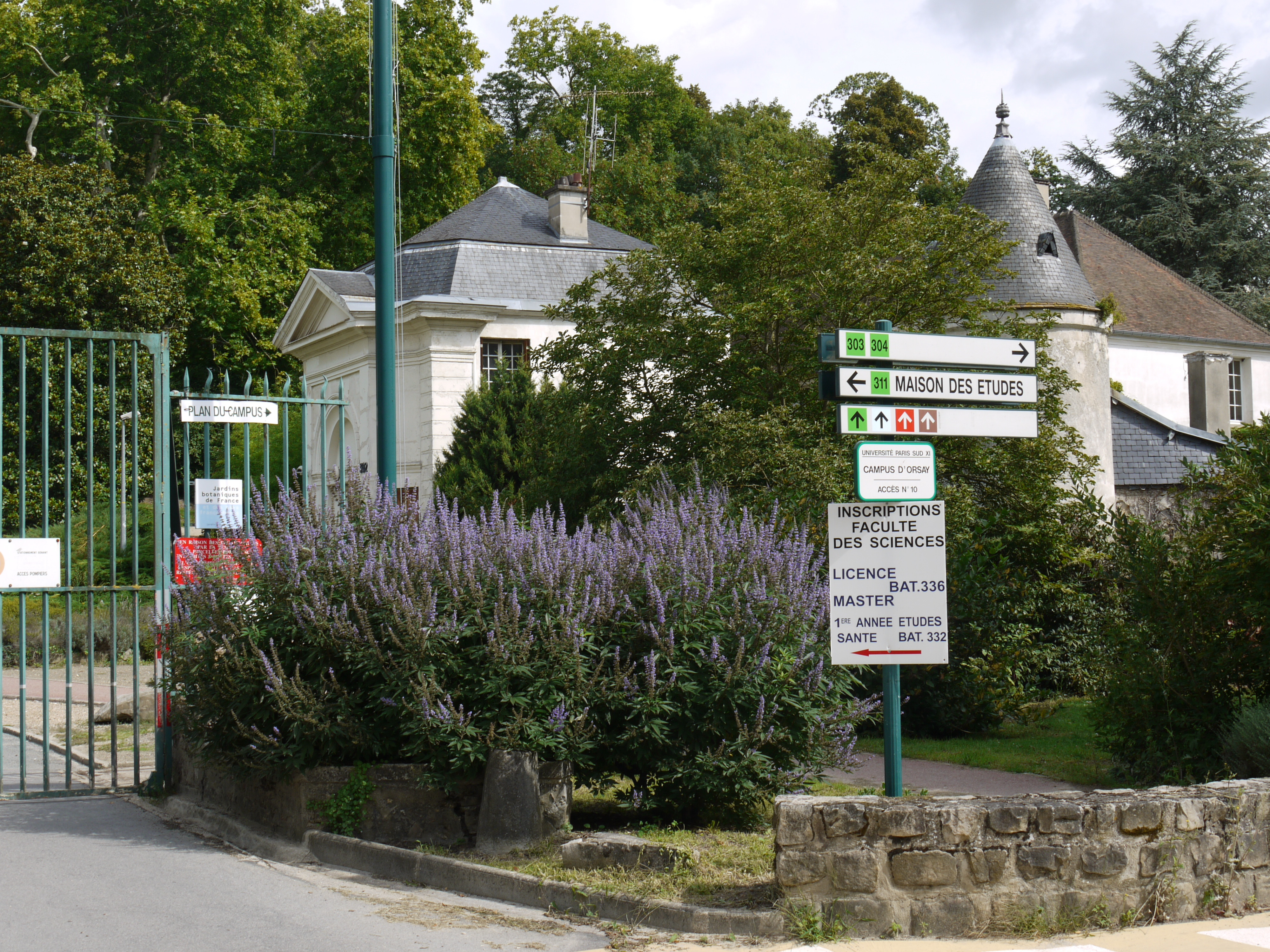 Entrance of University Paris XI, Orsay, France